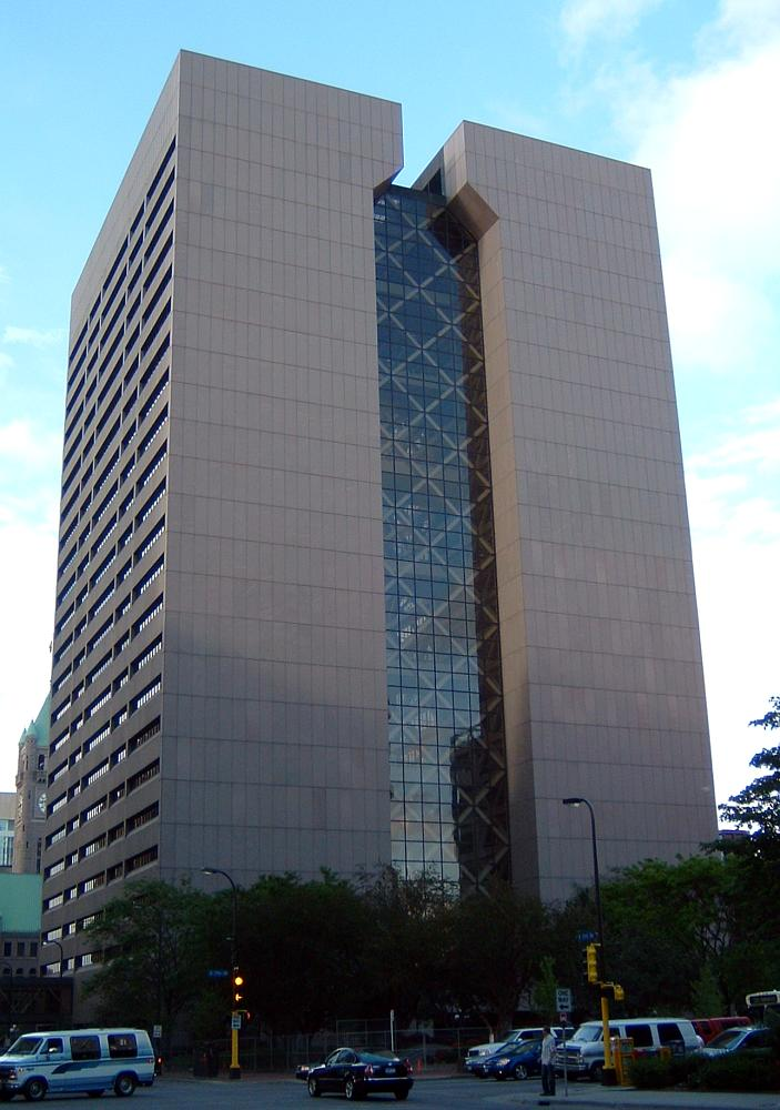 Hennepin County Government Center in Minneapolis, Minnesota, the County Seat of Hennepin County, Minnesota. Image taken on June 4, 2005 by User:Mulad. Hereby released into the public domain.